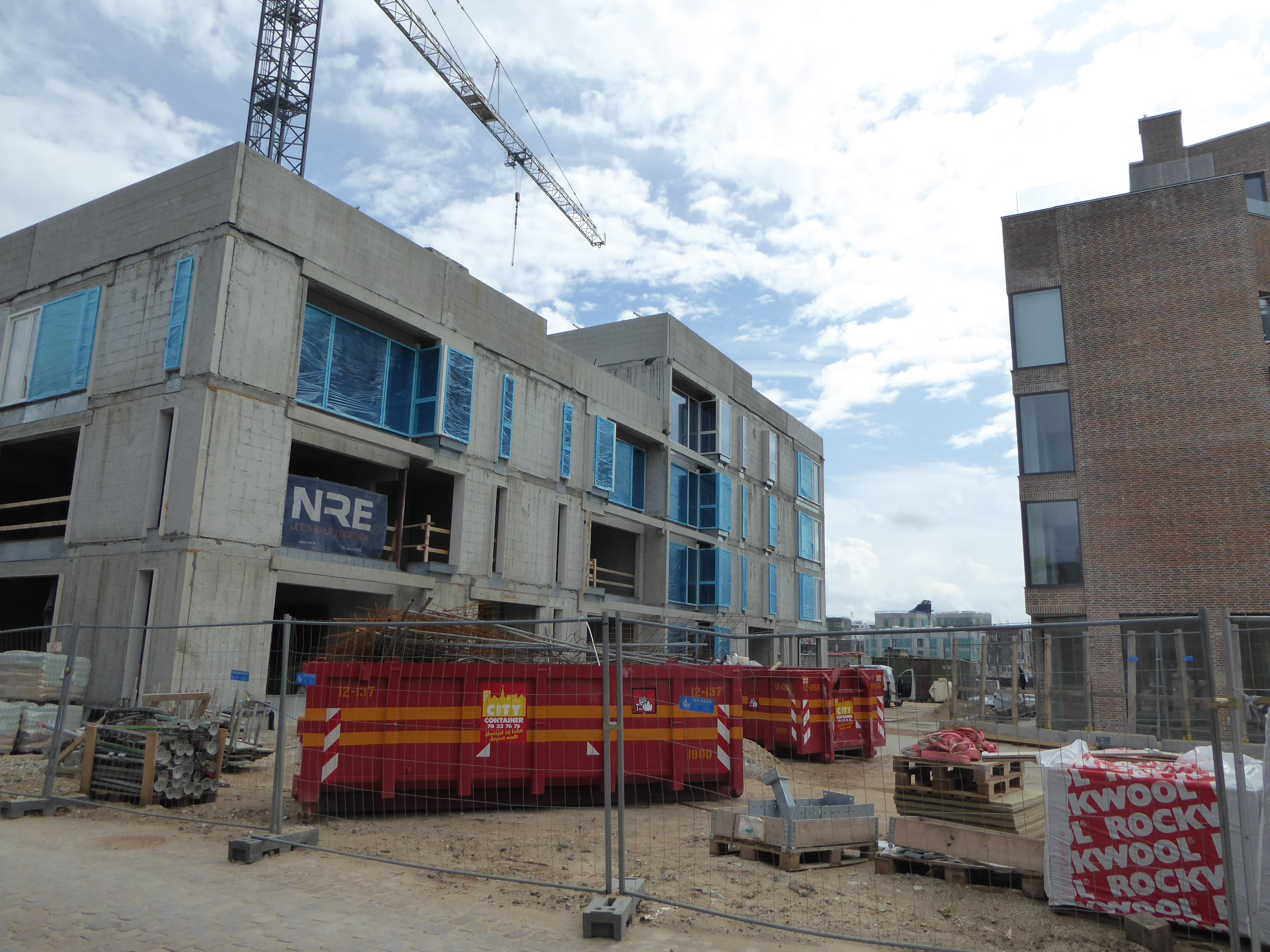 The street Aberdeengade under construction in Nordhavn in Copenhagen.